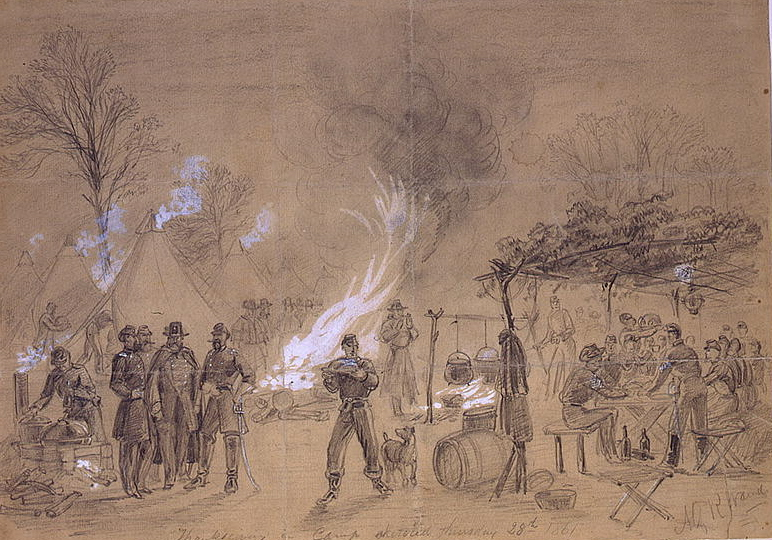 Sketch of Thanksgiving in camp (of General Louis Blenker) during the US Civil War on Thursday November 28th 1861.